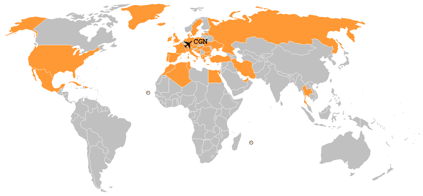 Countries served by flights from Cologne Bonn Airport including announced destinations as of September 2015